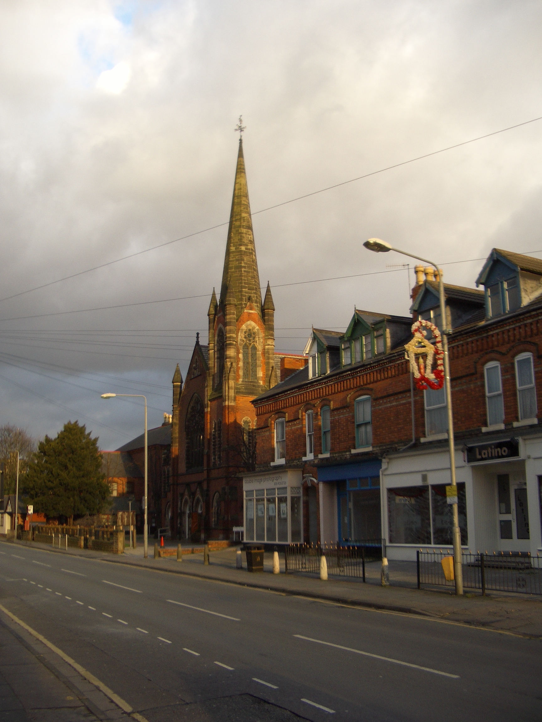 Chilwell Road, Beeston, Nottinghamshire, showing the tower and spire of the Methodist Church